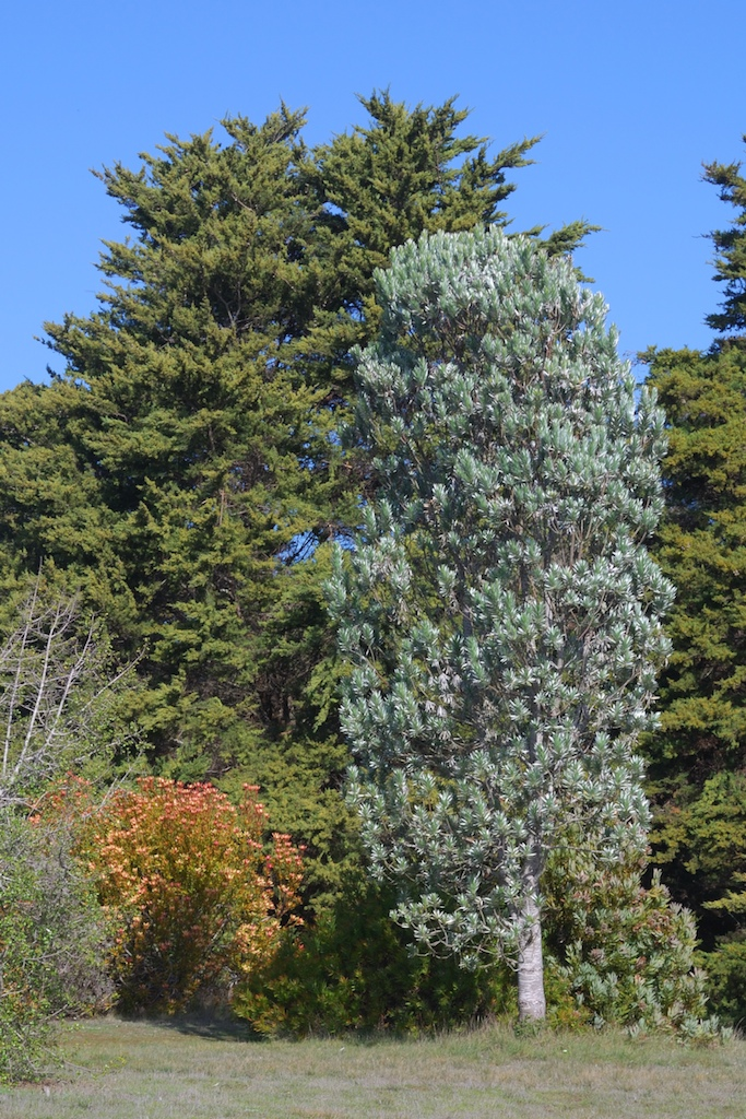 Leucadendron argenteum photographed at the UC Santa Cruz Arboretum